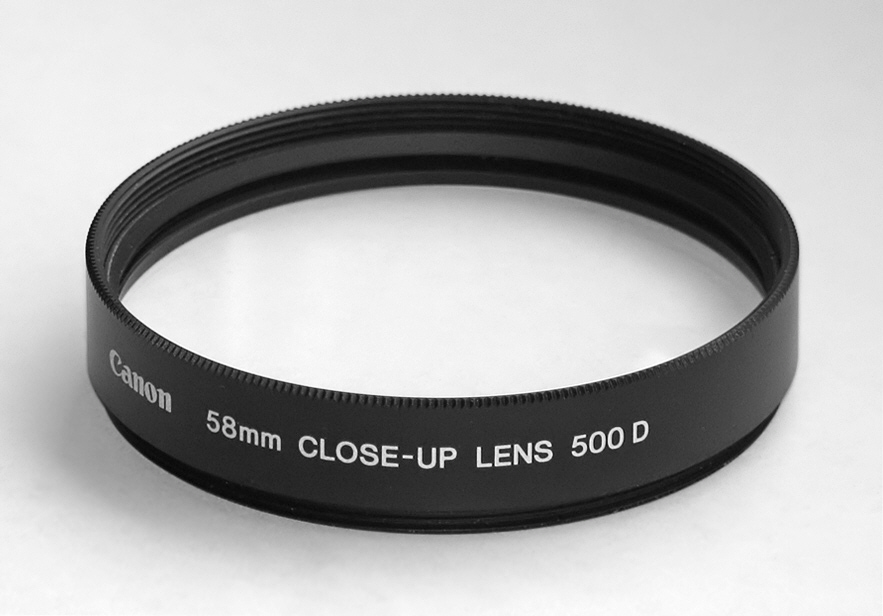 Canon 500D - two-elements close-up lens with "super spectra" anti-reflective multi-coating / +2 diopter / diameter 58 mm / achromatic close-up lens Описание